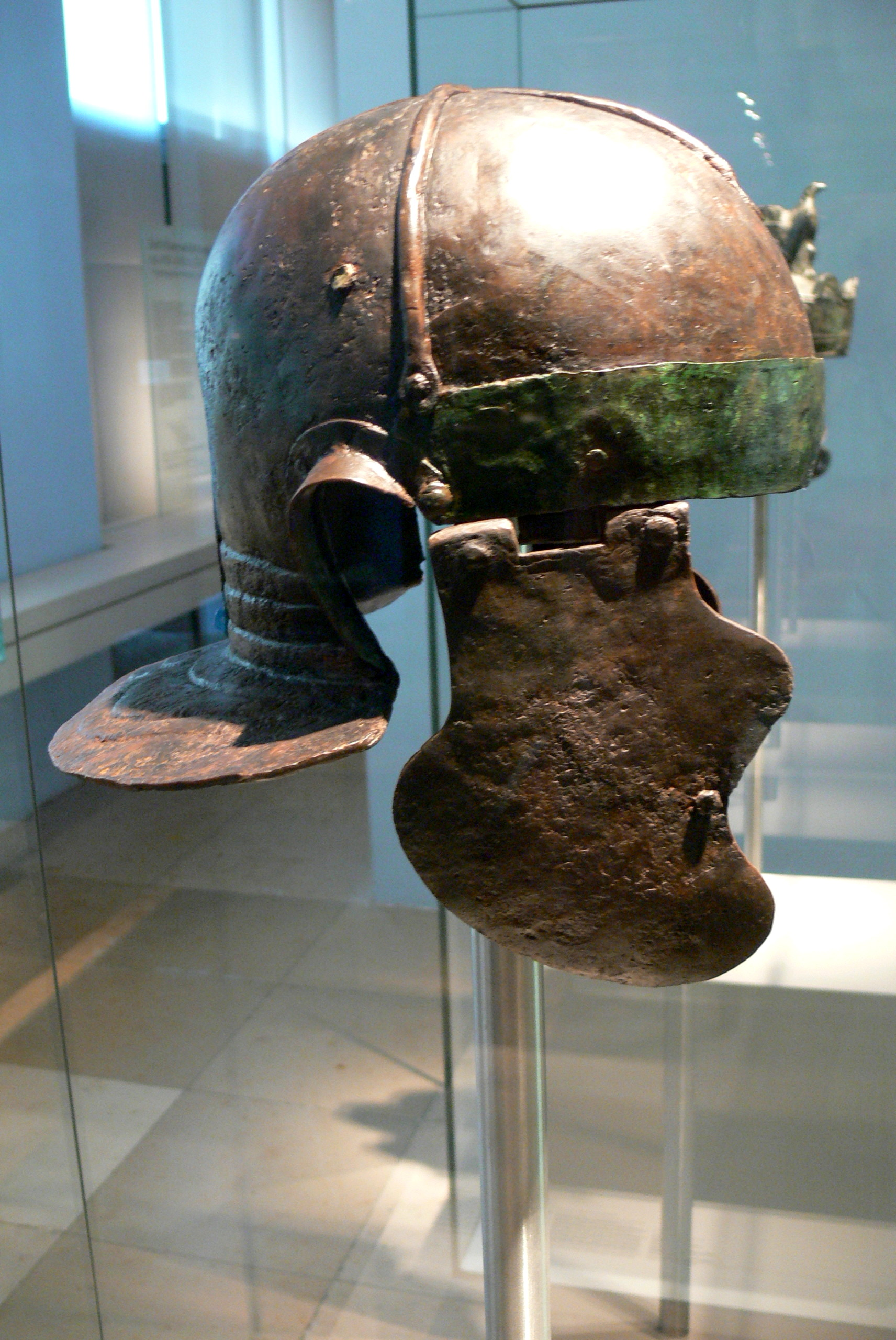 German National Museum (Nuremberg / Germany). Ancient Roman iron infantery helmet with foil mountings, 2nd century AD, from Theilenhofen ( Bavaria ).